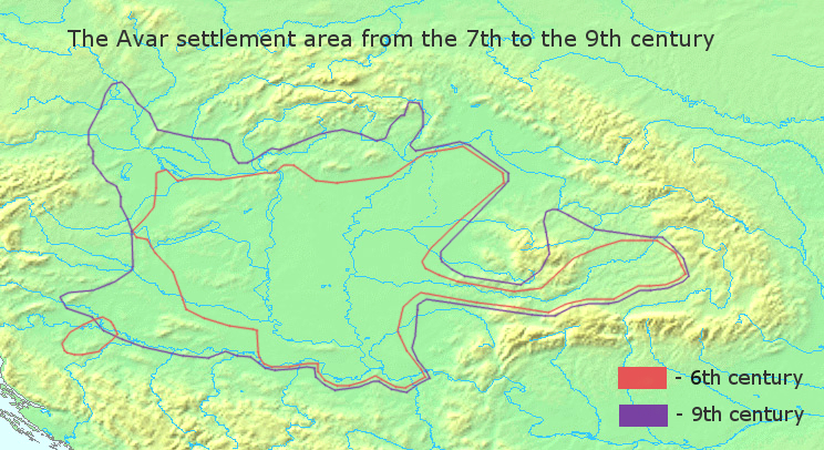 Avar settlement area from the 7th to the 9th century, the map is based on E. Garam's and W. Holzl's work[1]